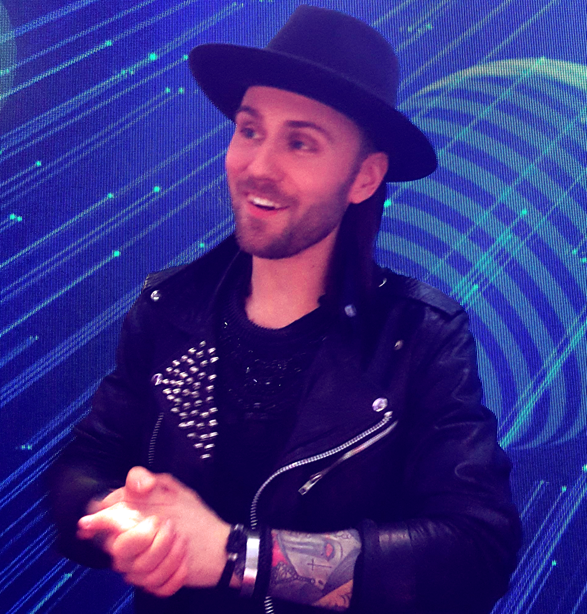 Swedish singer Lukas Meijer after winning at Polish National Final for Eurovision 2018.